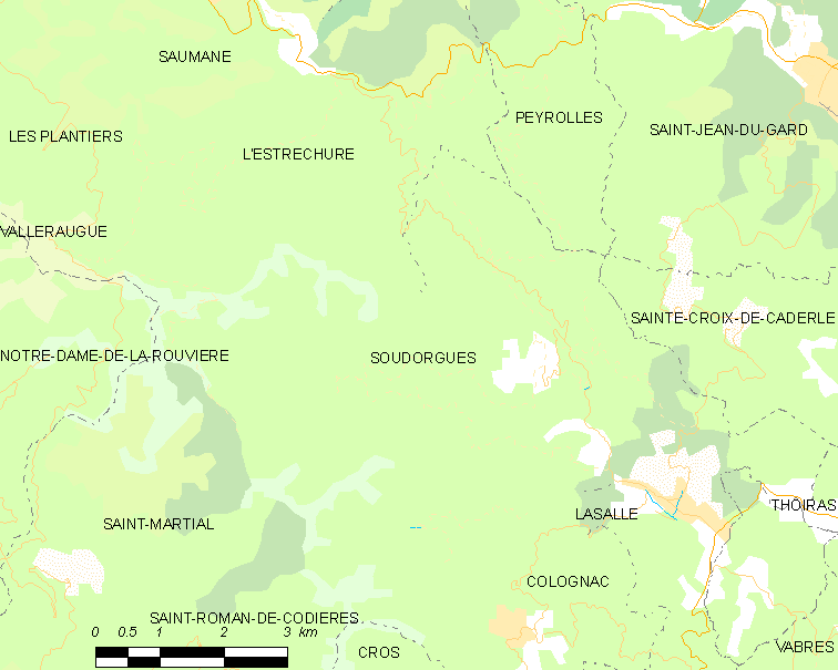 Map commune FR insee code 30322.png - Soudorgues